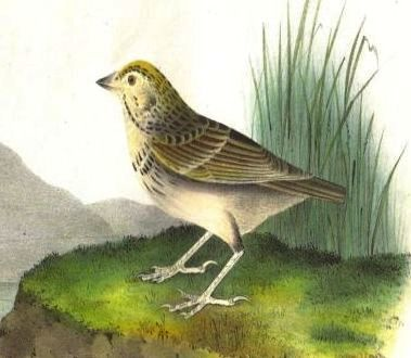 Ammodramus bairdii